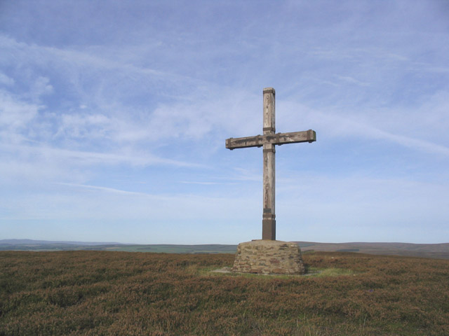 The Millennium Cross on Dirrington Little Law. This Millennium Cross is perched on a prominent position on Dirrington Little Law (363m) 6 miles west of Duns on the southern edge of the Lammermuir Hills. Organised by local churches and constructed by local craftsmen, the 5m high cross was airlifted into position by an army helicopter. 250 people, including a brass ensemble, attended the official ecumenical dedication service on the summit on Sunday 11th June 2000. A small metal plaque on the cross reads as follows:- The Millennium Cross Built by a group of Berwickshire Churches and Dedicated to God 11 June 2000